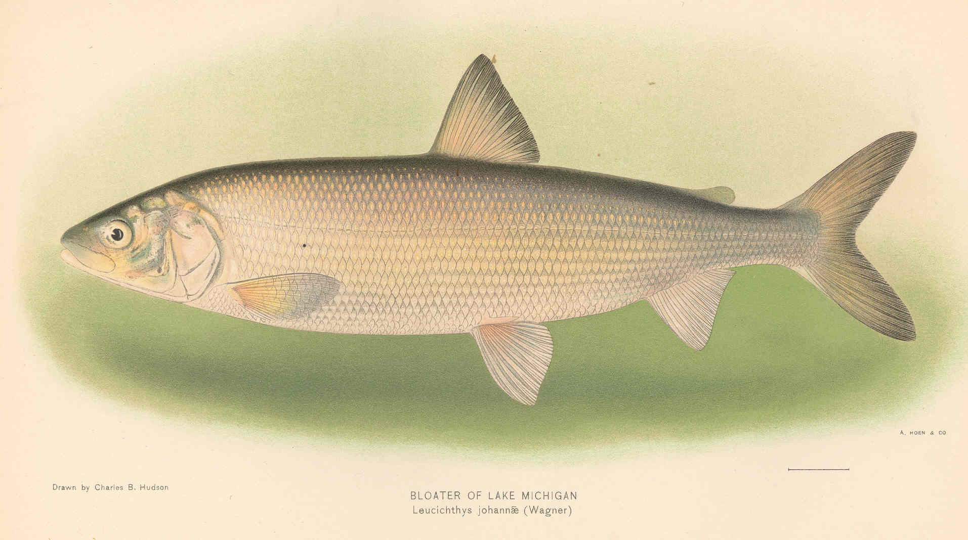 Bloater of Lake Michigan: Leucichthys johannae (Wagner) = Coregonus johannae (Wagner, 1910) Subject: Coregonus Tag: Fish